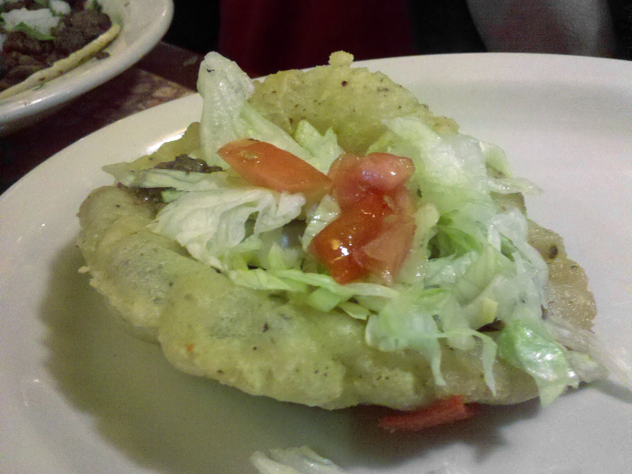 A puffy taco as served by Los Barrios Mexican Restaurant at 4223 Blanco Road in San Antonio, Texas, USA. Photographer's caption: "At Los Barrious in San Antonio."Note: The geo-coordinates don't match the location of the restaurant; however, they do land in a nearby residential neighborhood.Puffy Tacos